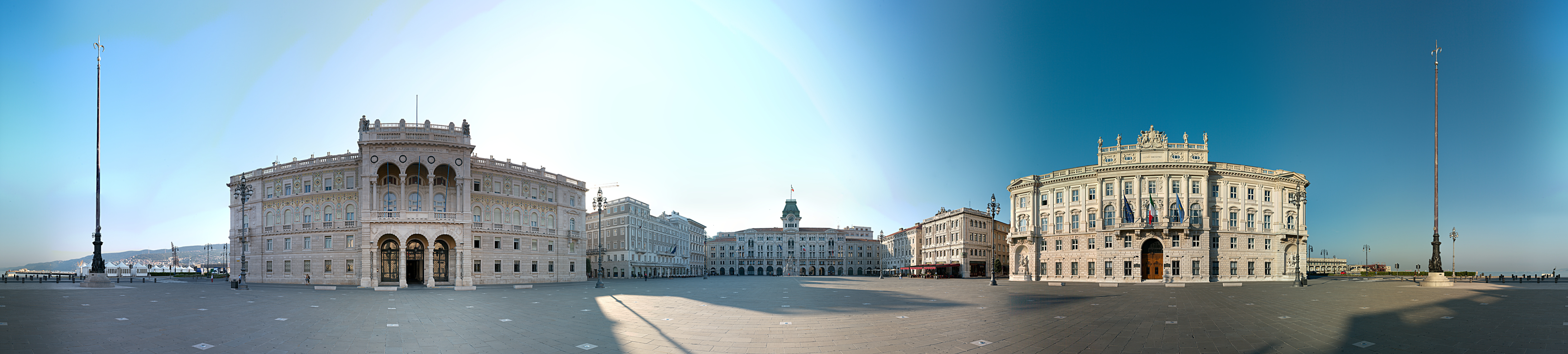 360° panoramic view of Piazza Unità d'Italia during sunrise